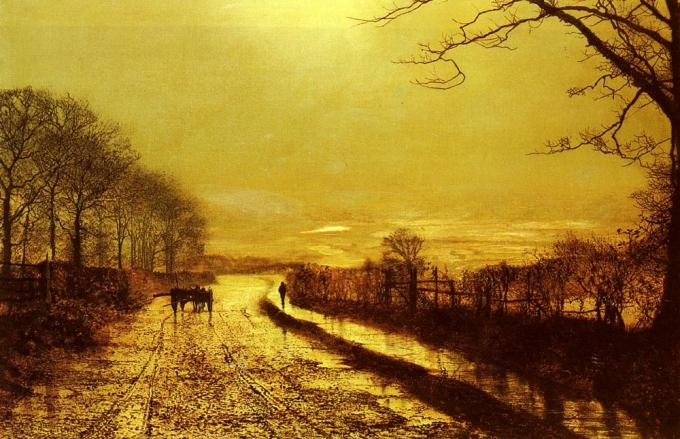 Wharfedale